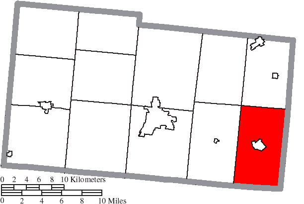 Map of the municipal and township boundaries of Champaign County, Ohio, United States, as of the 2000 census, with the location of Goshen Township highlighted. Township borders are shown only in unincorporated areas in order to differentiate incorporated and unincorporated areas more clearly.